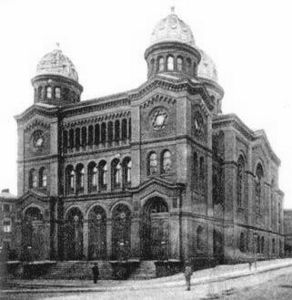 Synagogue of Bydgoszczy dstroyed by the Nazis in 1939